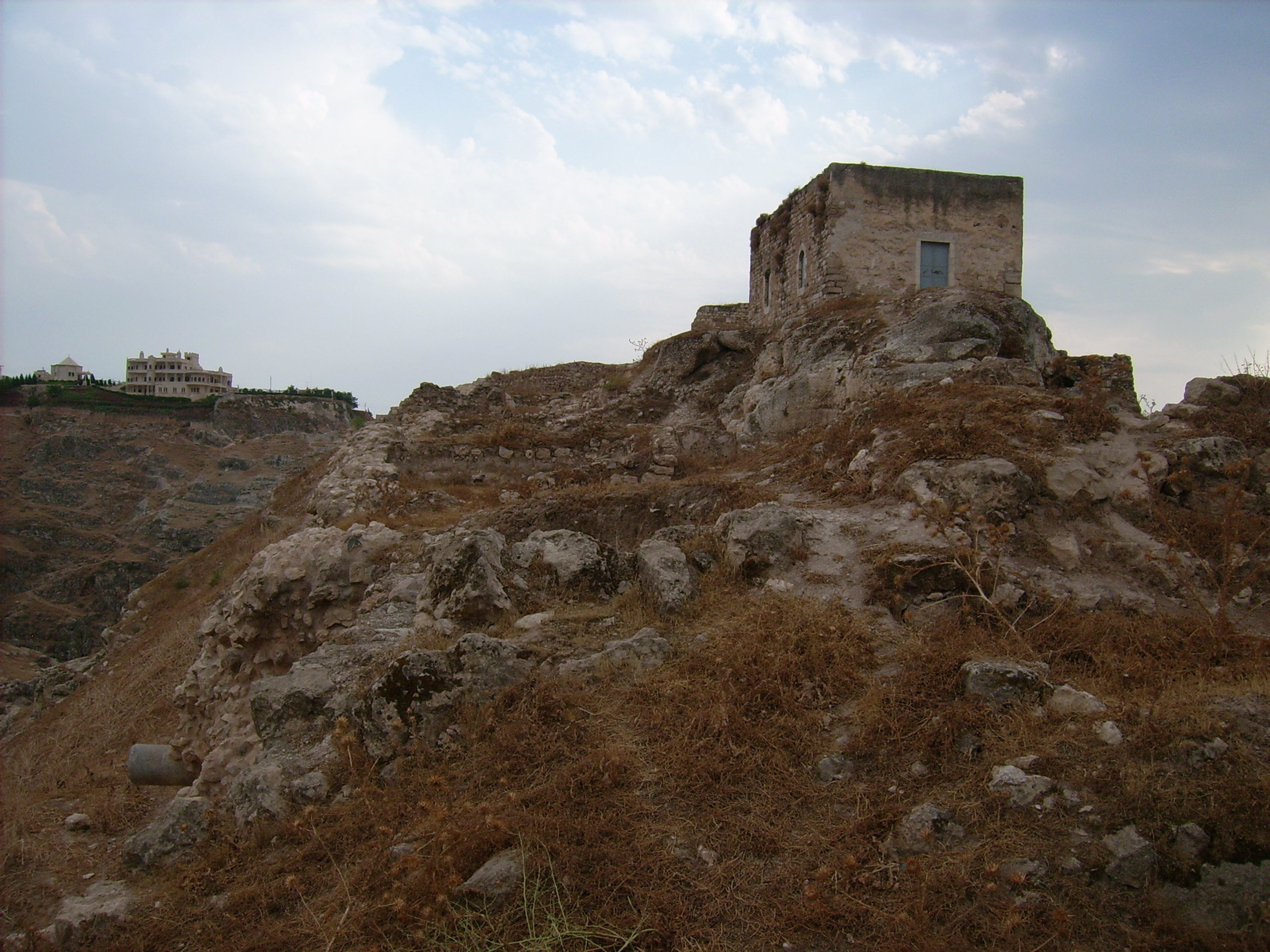 An exceptionally well-preserved tower in the middle-part of the citadel of Shayzar (Syria), surrounded by just ruins.